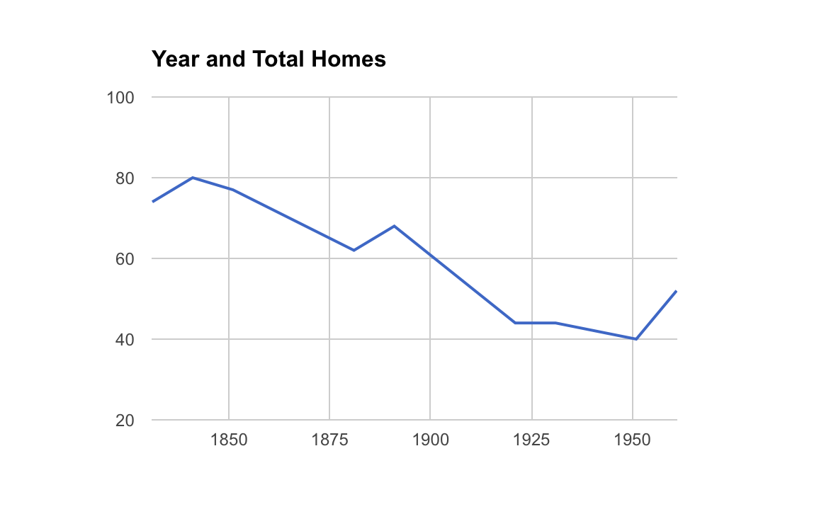 total homes line graph over time series 1831-1961